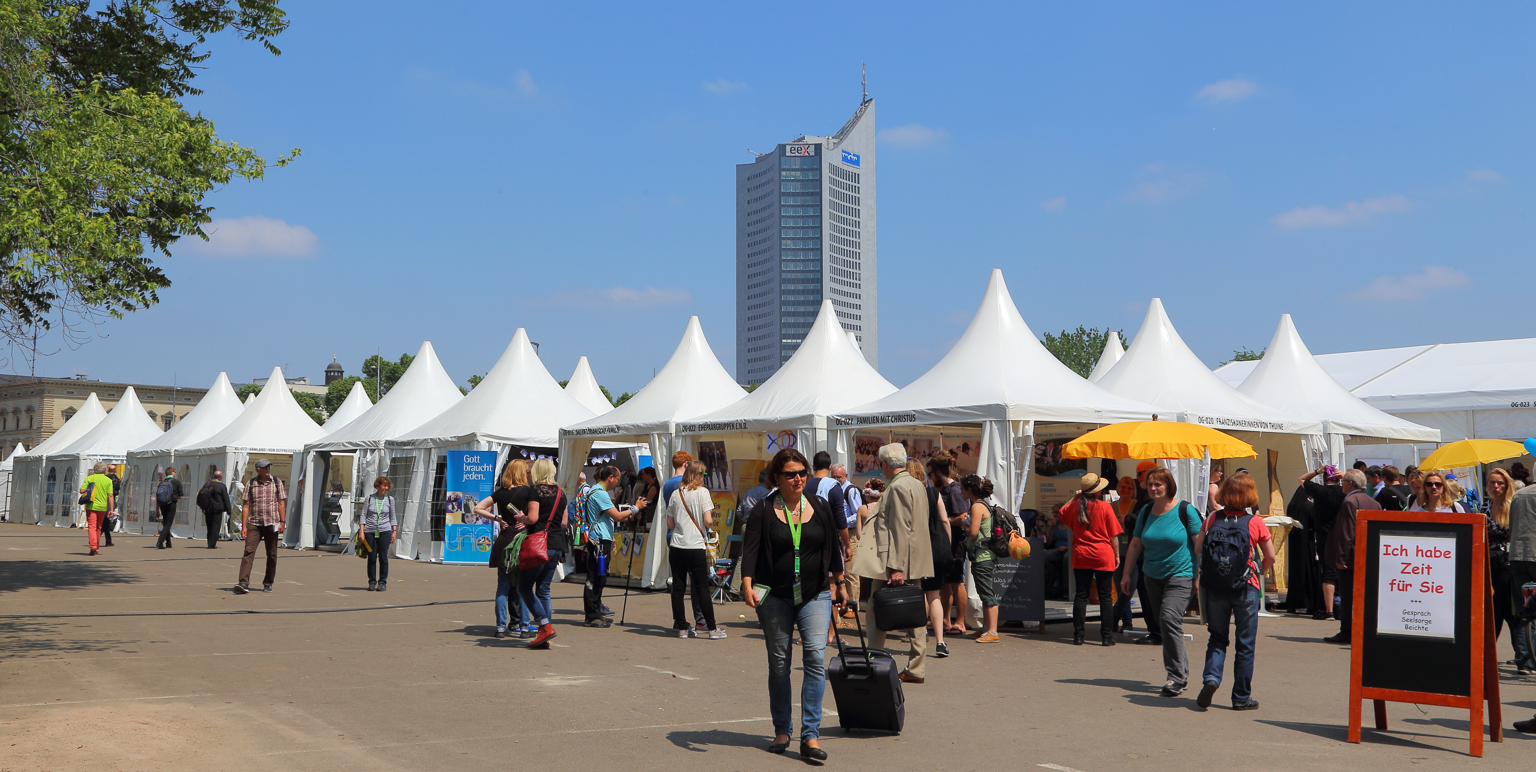 The 100th German Catholic Convention (100. Deutscher Katholikentag) in Leipzig, Saxony, Germany.